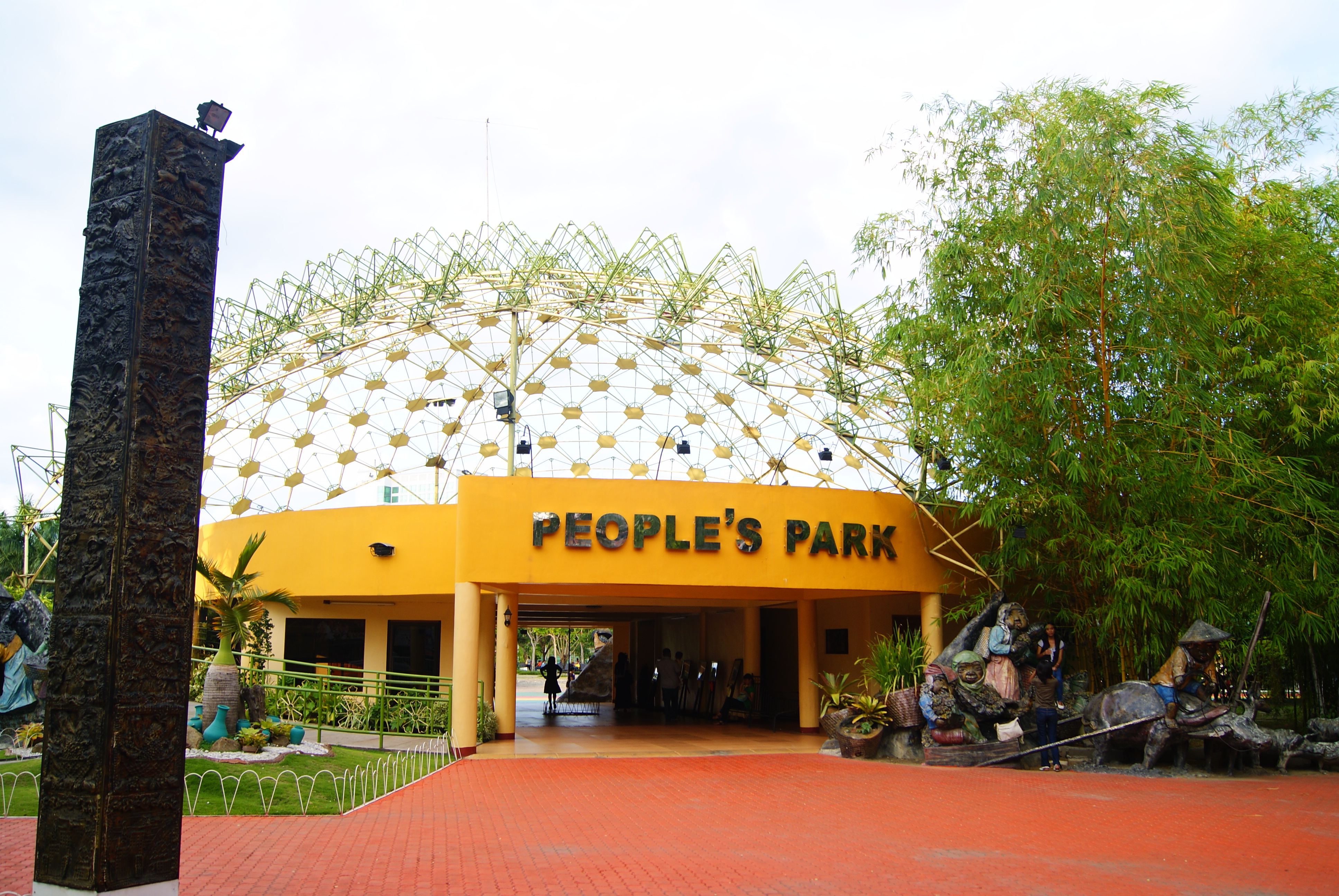 A view of People's Park, Davao city